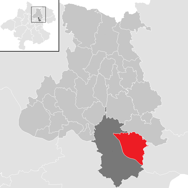 District Urfahr-Umgebung